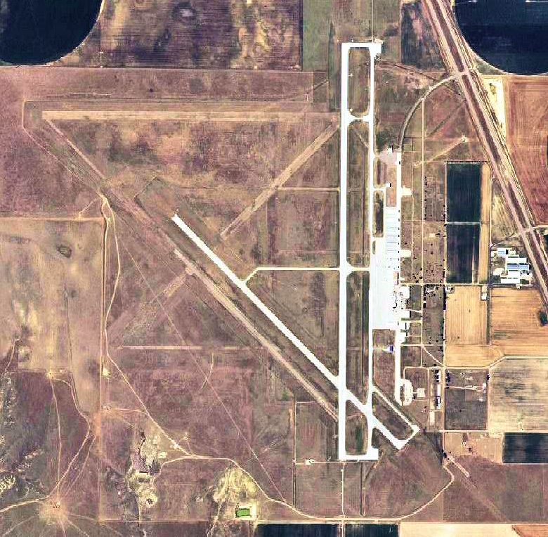 USGS orthophoto of Garden City Regional Airport, formerly Garden City Army Airfield, in Kansas, United States